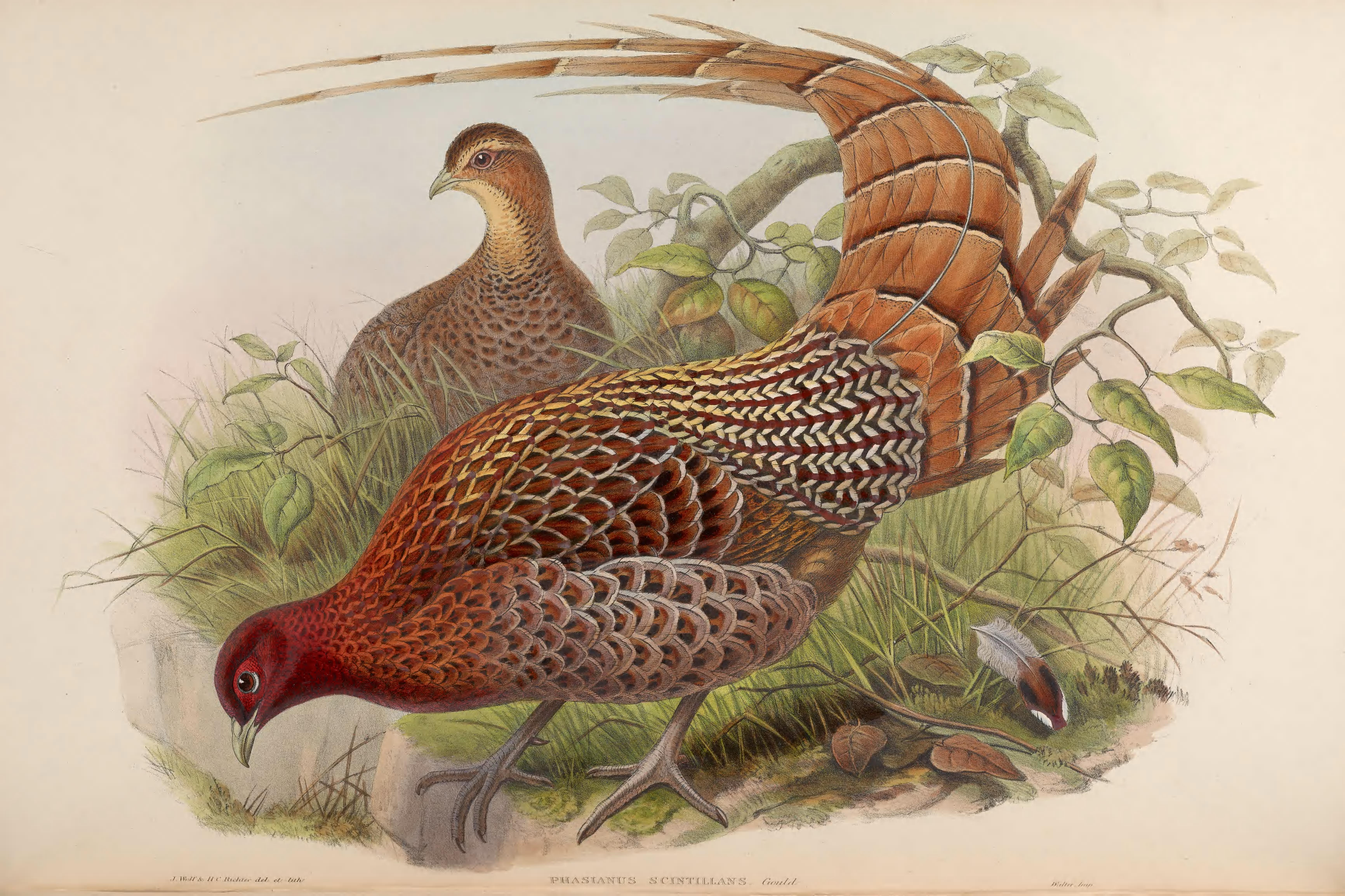 Phasianus scintillans = Syrmaticus soemmerringii scintillans[1]